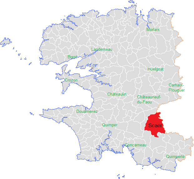 placement Scaër in departement Finistère